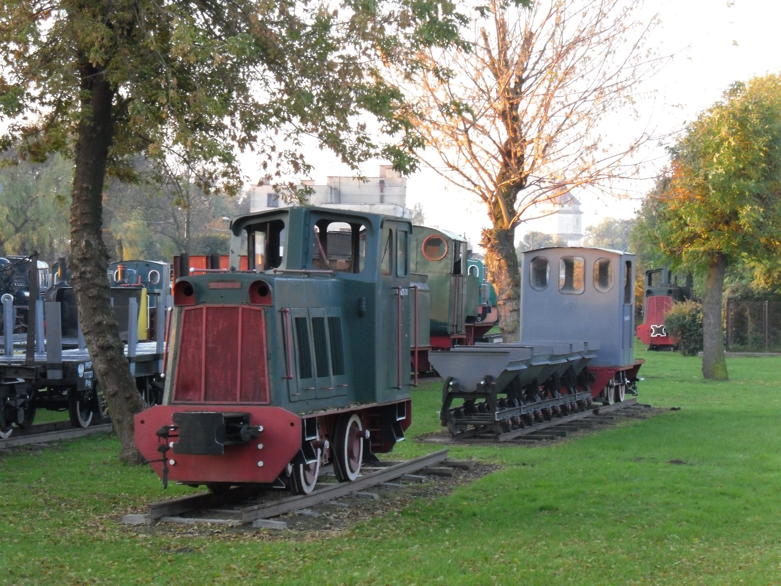 Exposition in Narrow Gauge Railway Museum in Sochaczew - Wls75 diesel locomotive.